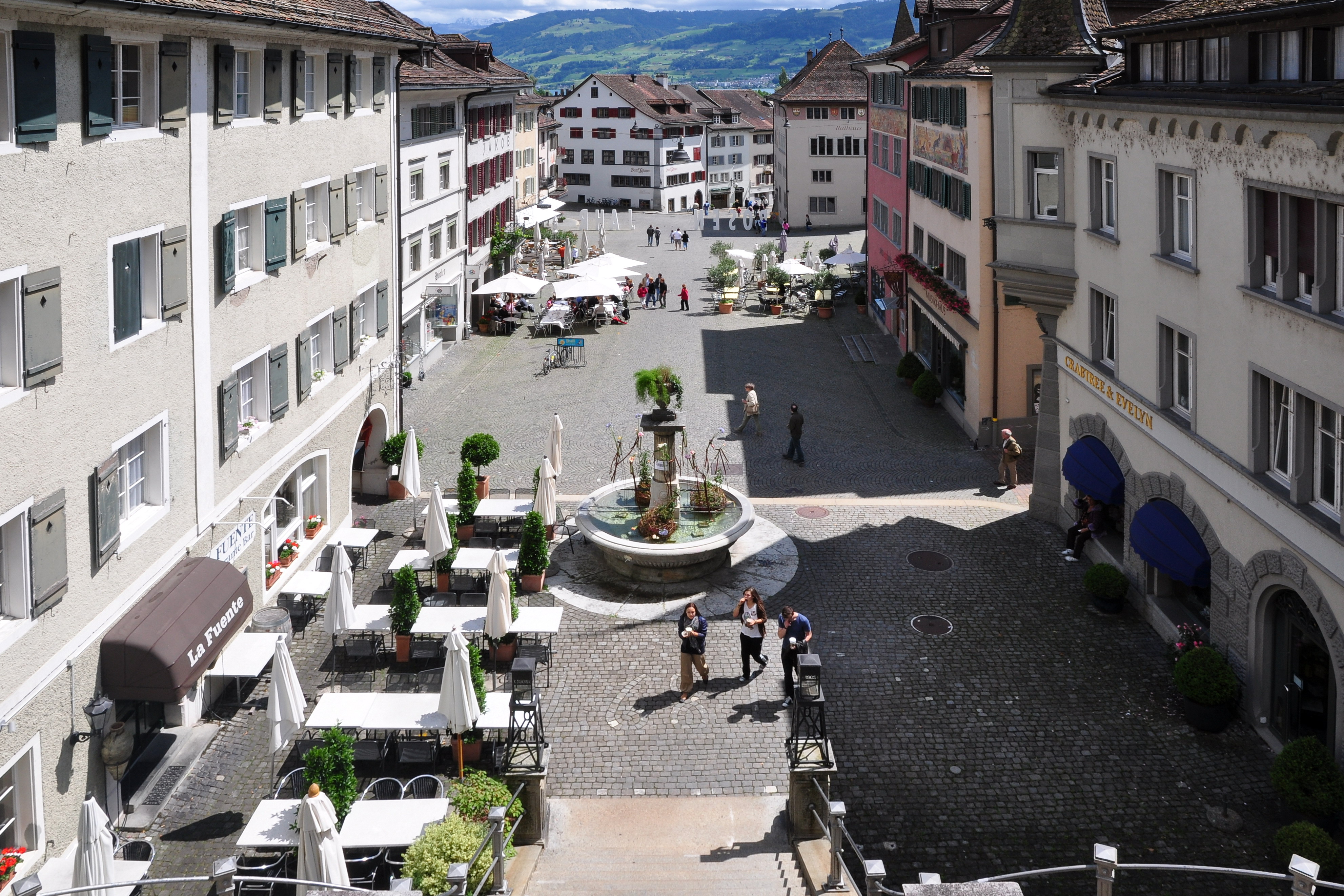 Hauptplatz in Rapperswil (Switzerland), as seen from inbetween the castle (Schloss) and Stadtpfarrkirche (St. John's church), Rathaus in the background to the right.